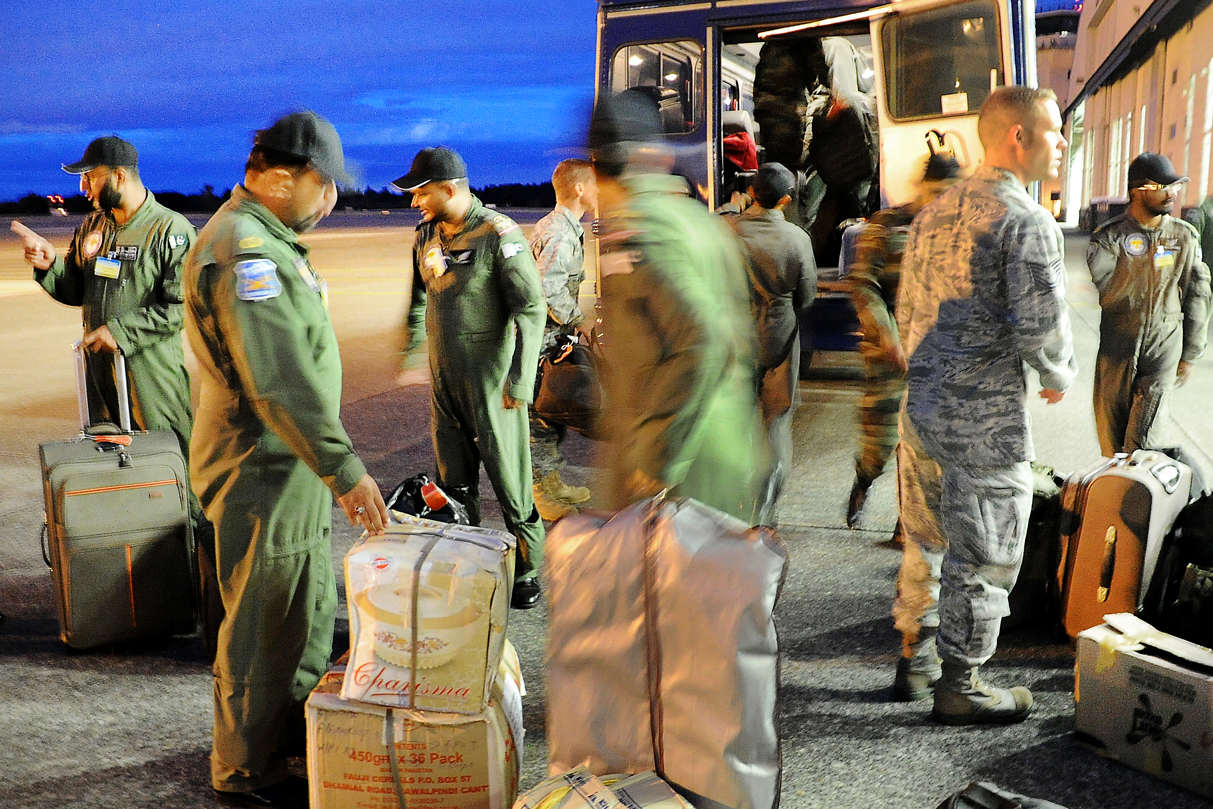 U.S. Air Force personnel assist Pakistan air force members with inprocessing in preparation for Air Mobility Rodeo 2011 on Joint Base Lewis-McChord, Wash., July 19, 2011.